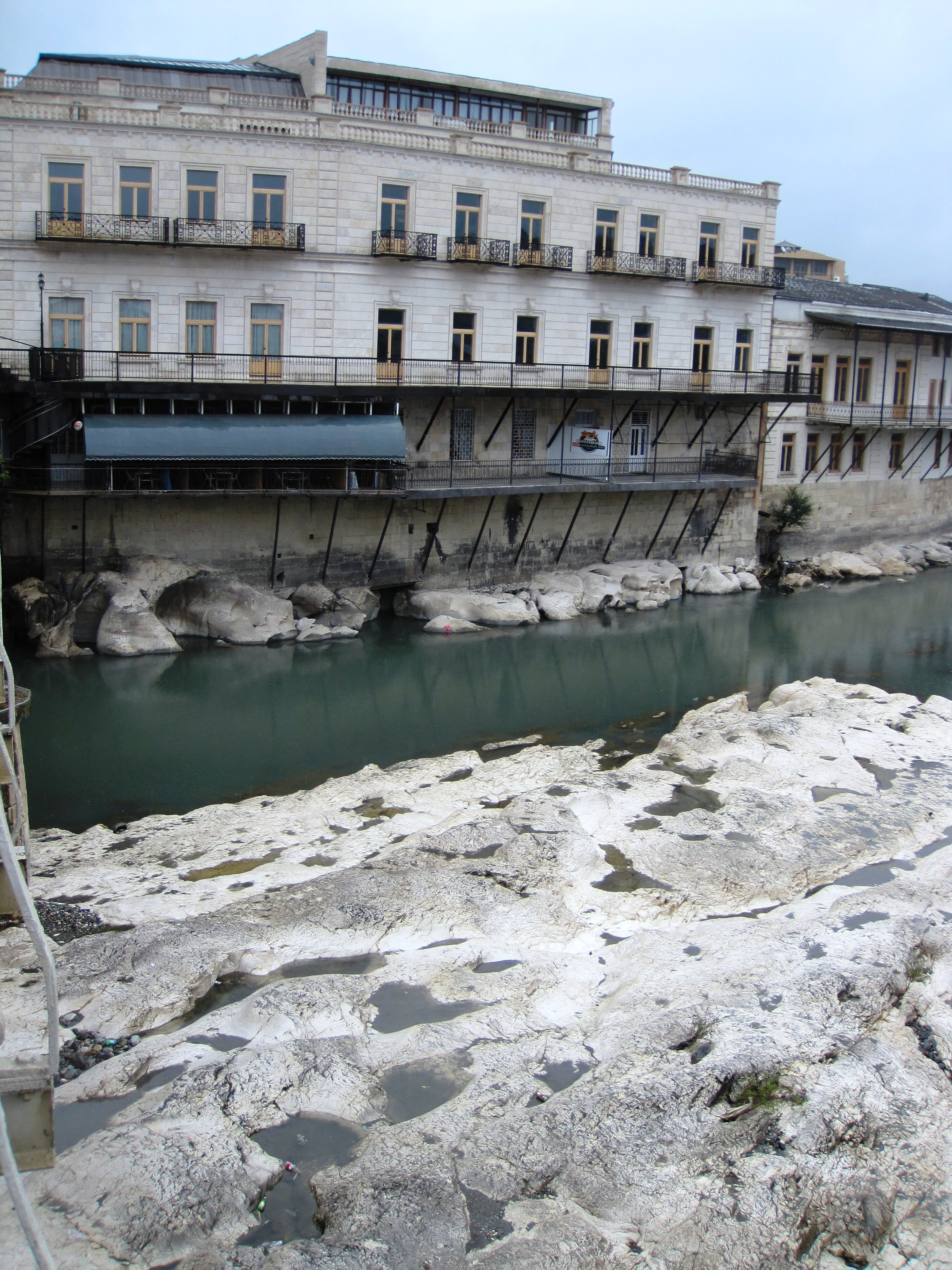 The so-called White Stones in the Rioni river in downtown Kutaisi seen from the White Bridge